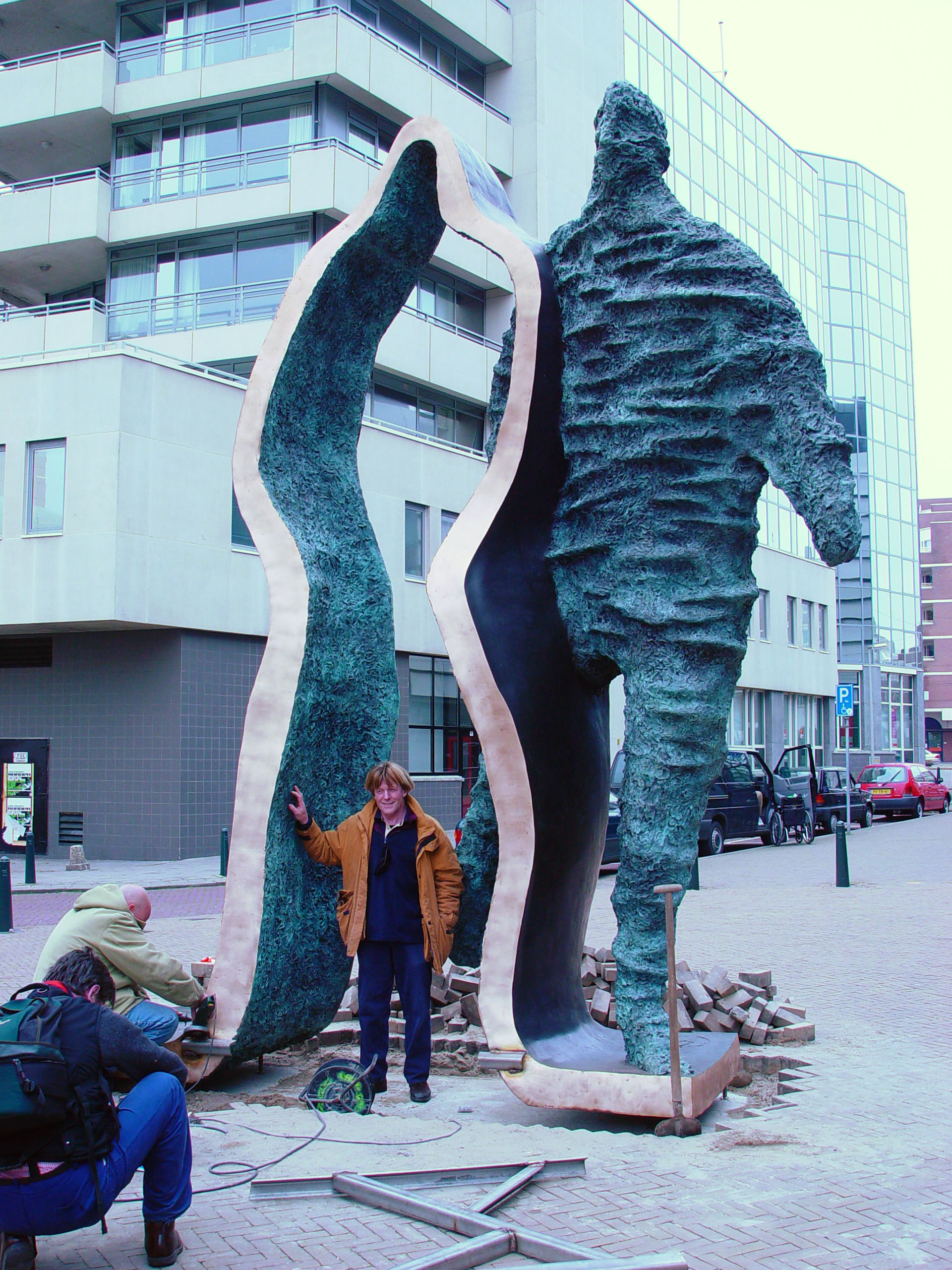 Pépé Grégoire at the placing of his artwork at Afas Circus Theater Scheveningen